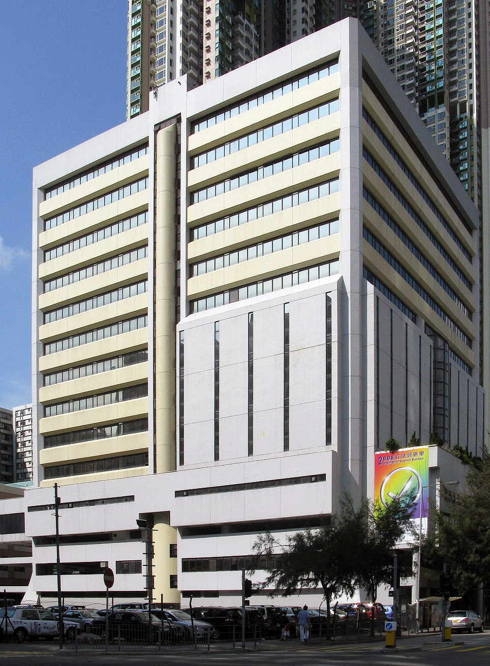 This is an edited version of this 2008 photo. I have edited the perspective, cropped the photo, and adjusted the brightness, sharpness, and contrast. This is a photo of the Eastern Law Courts Building in Hong Kong.